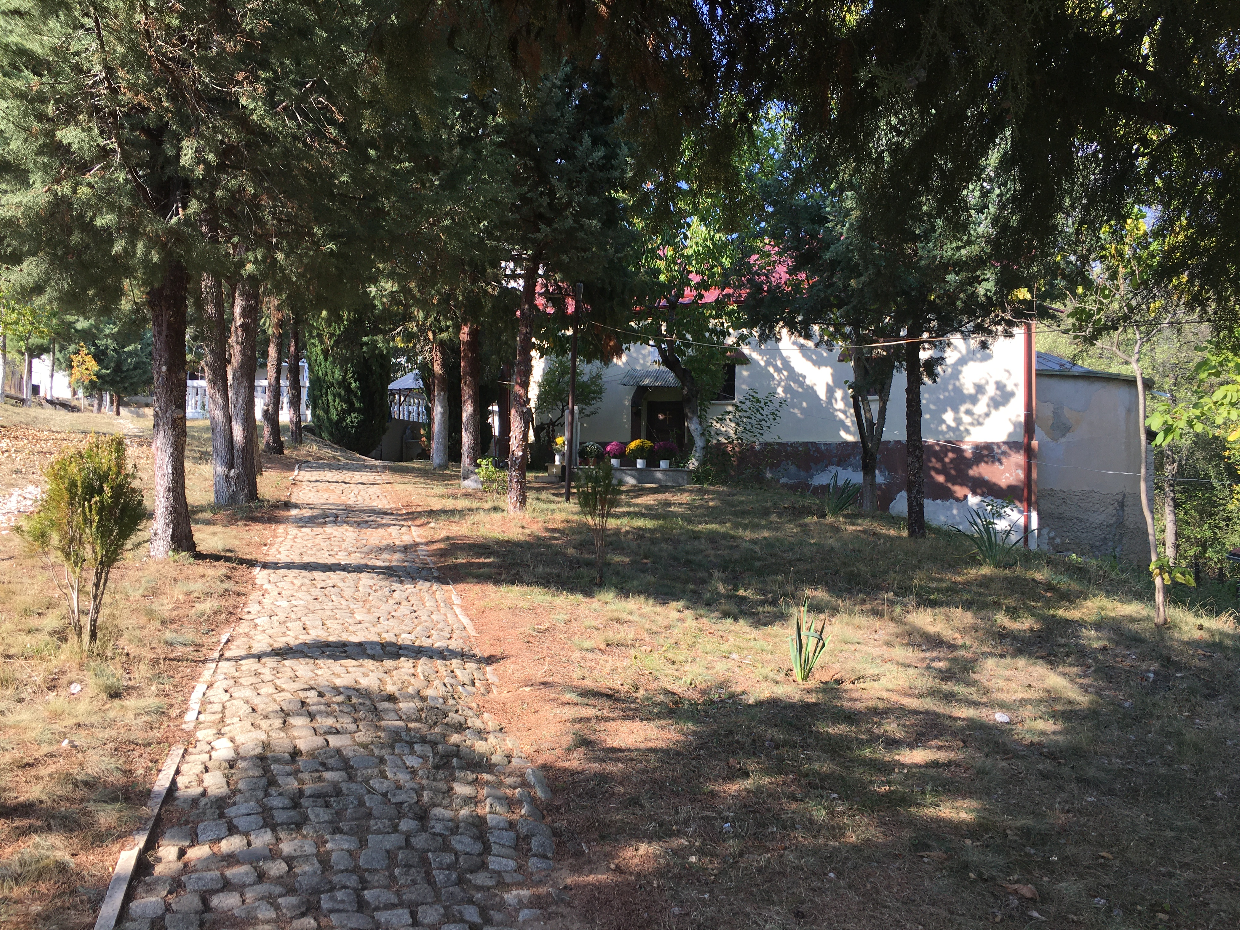 Strovija Monastery's yard